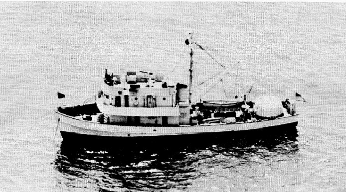 USS Accentor via danfs